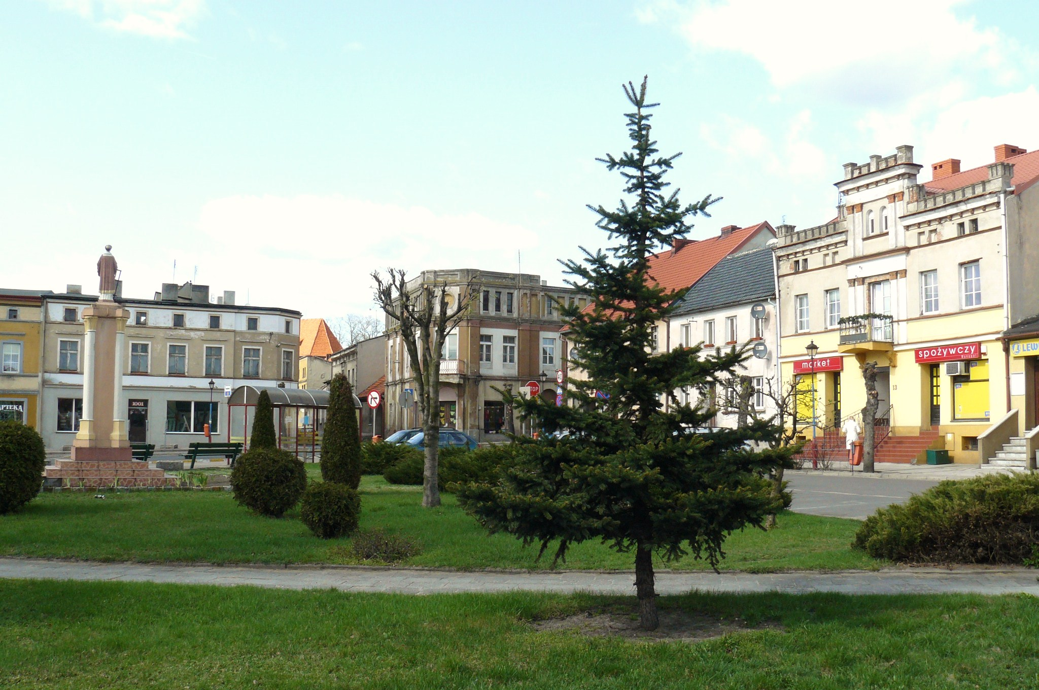 Krzywin - market square.